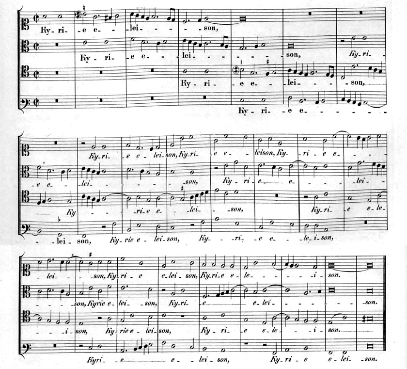 Kyre II from Missa Sanctorum Meritis